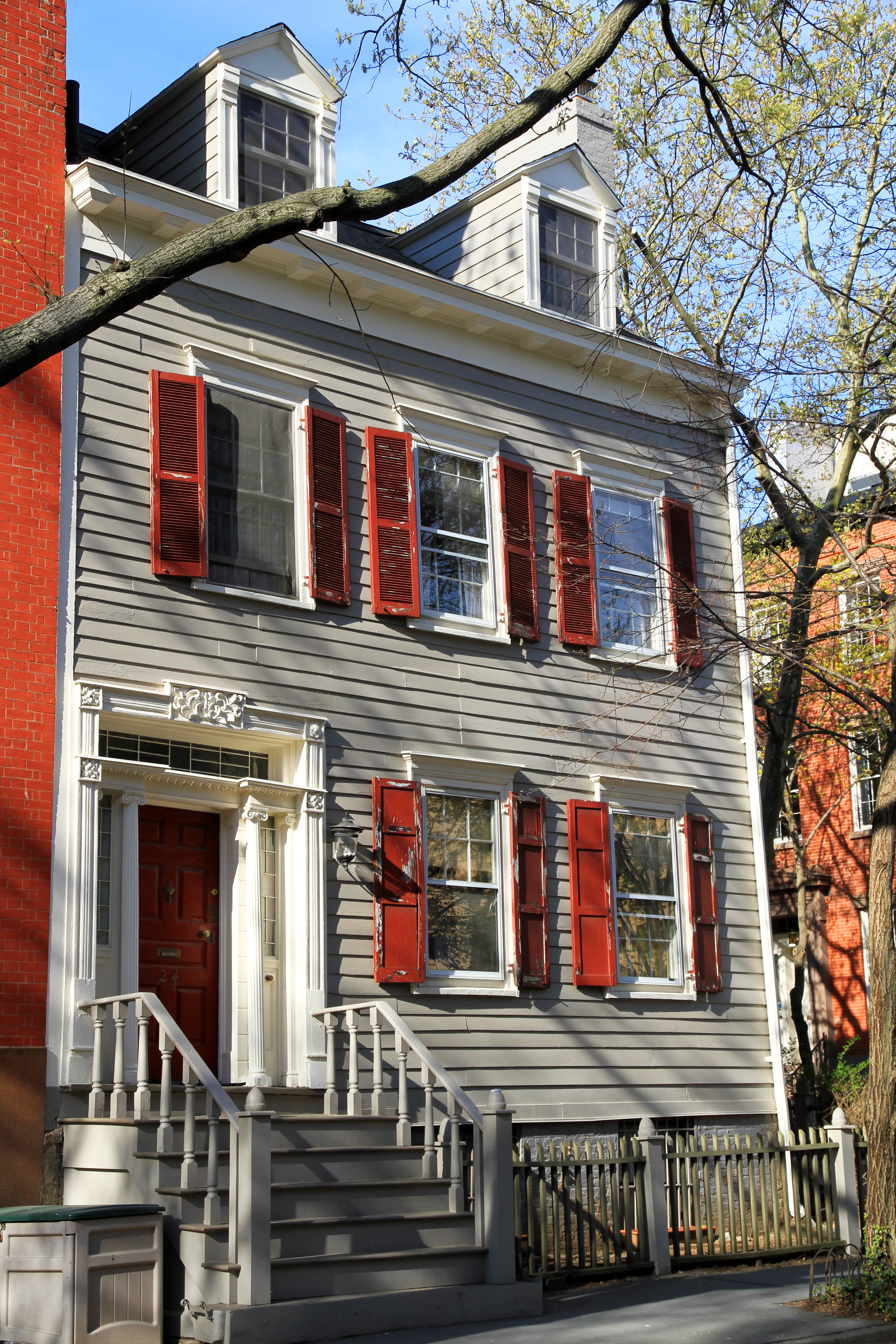 Brooklyn Heights- Middagh Street